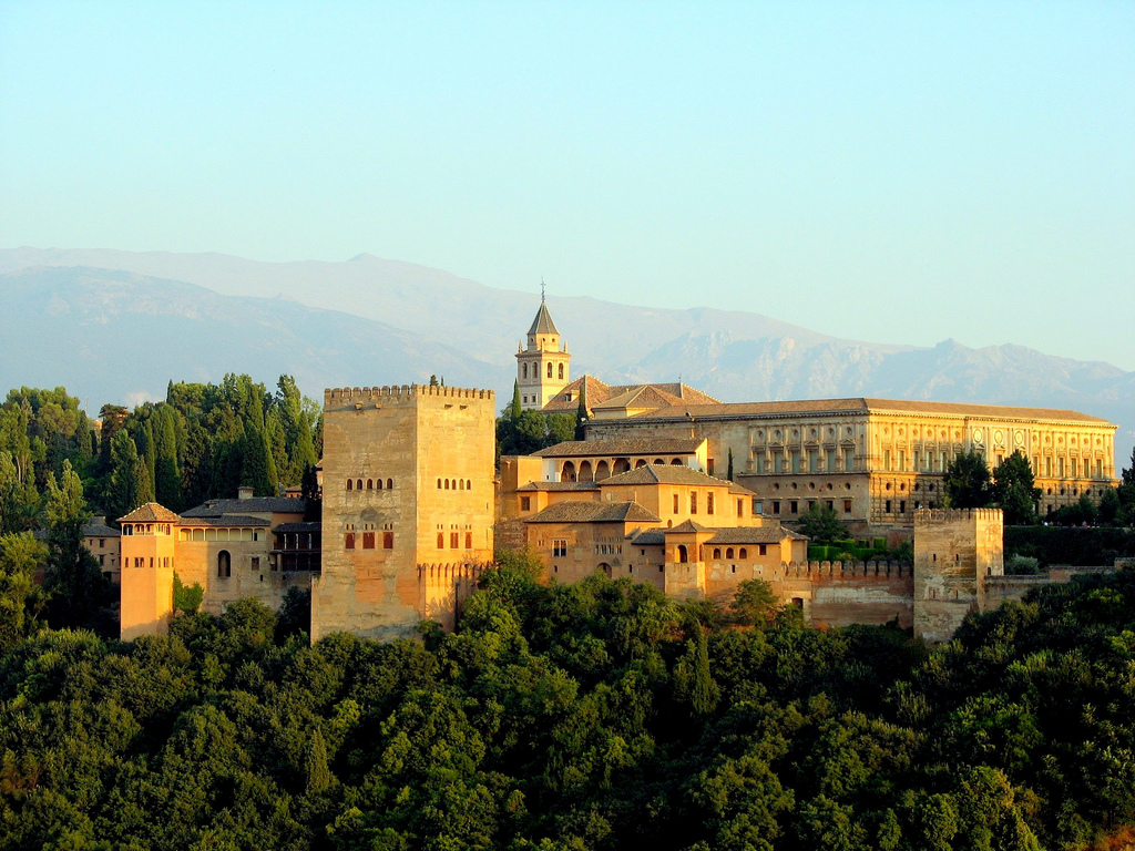 View of the Alhambra, Granada, Spain